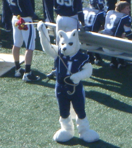 Connecticut mascot Jonathan swings around a toy Gamecock behind the UConn bench during the en:2010 Bowl.